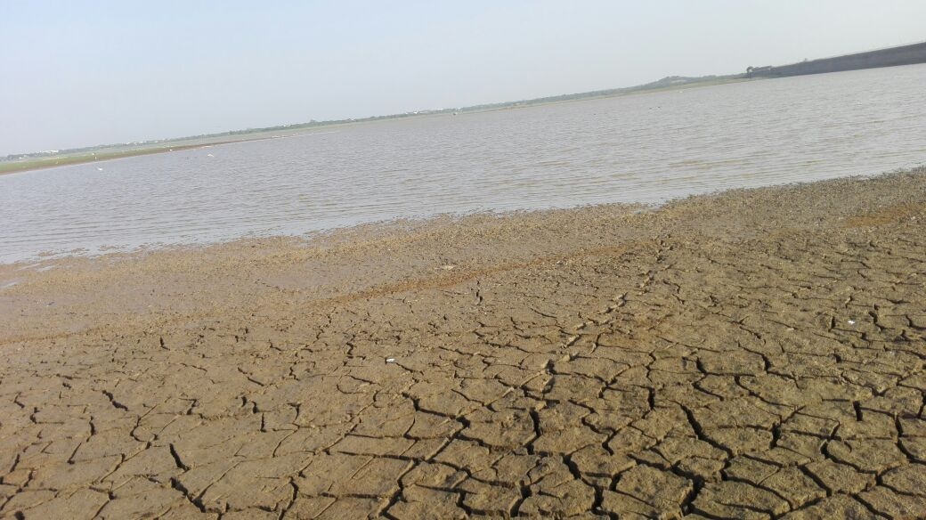 Himayath sagar lake view